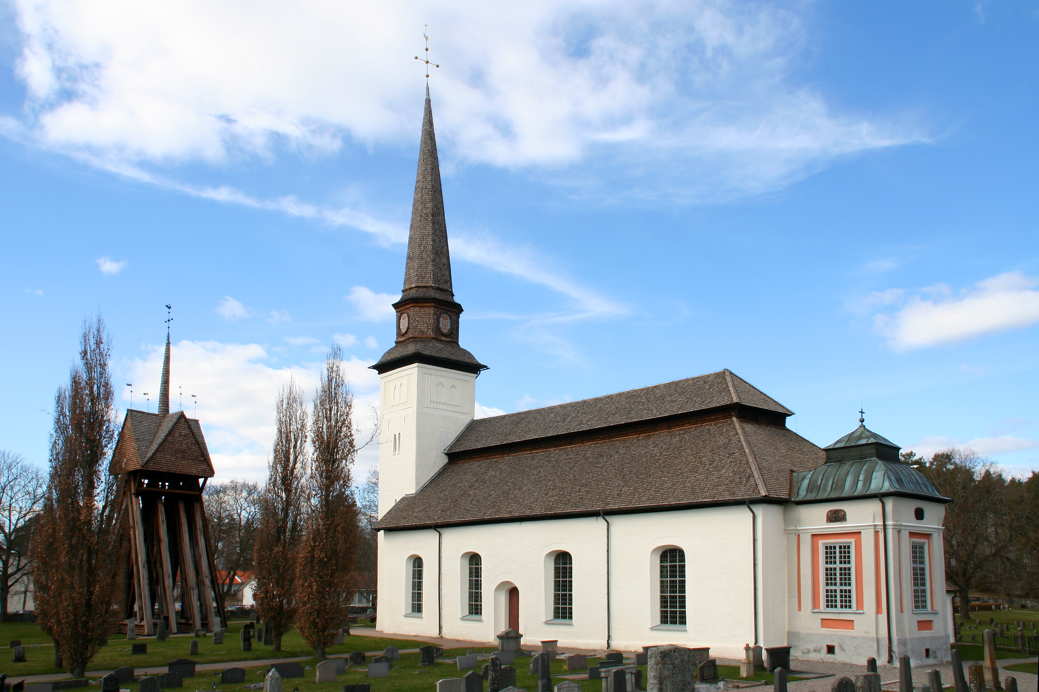 Glanshammar Church